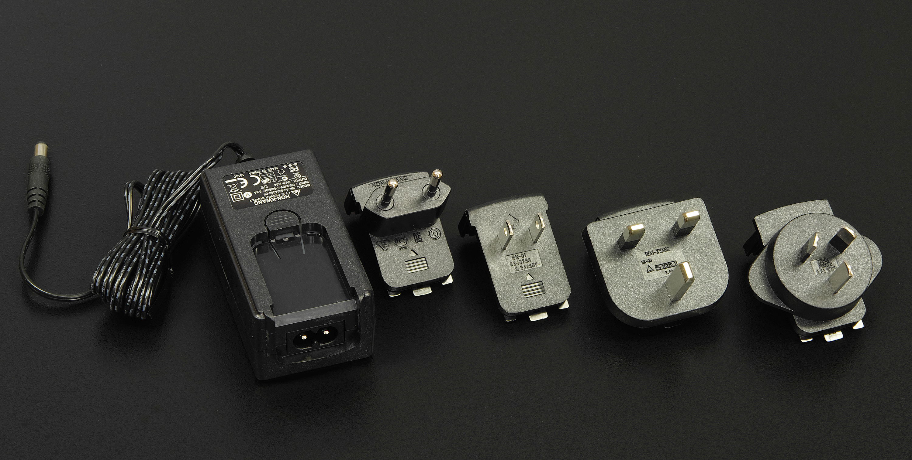 AC adapter 9V/2000mA supporting four different AC plug systems